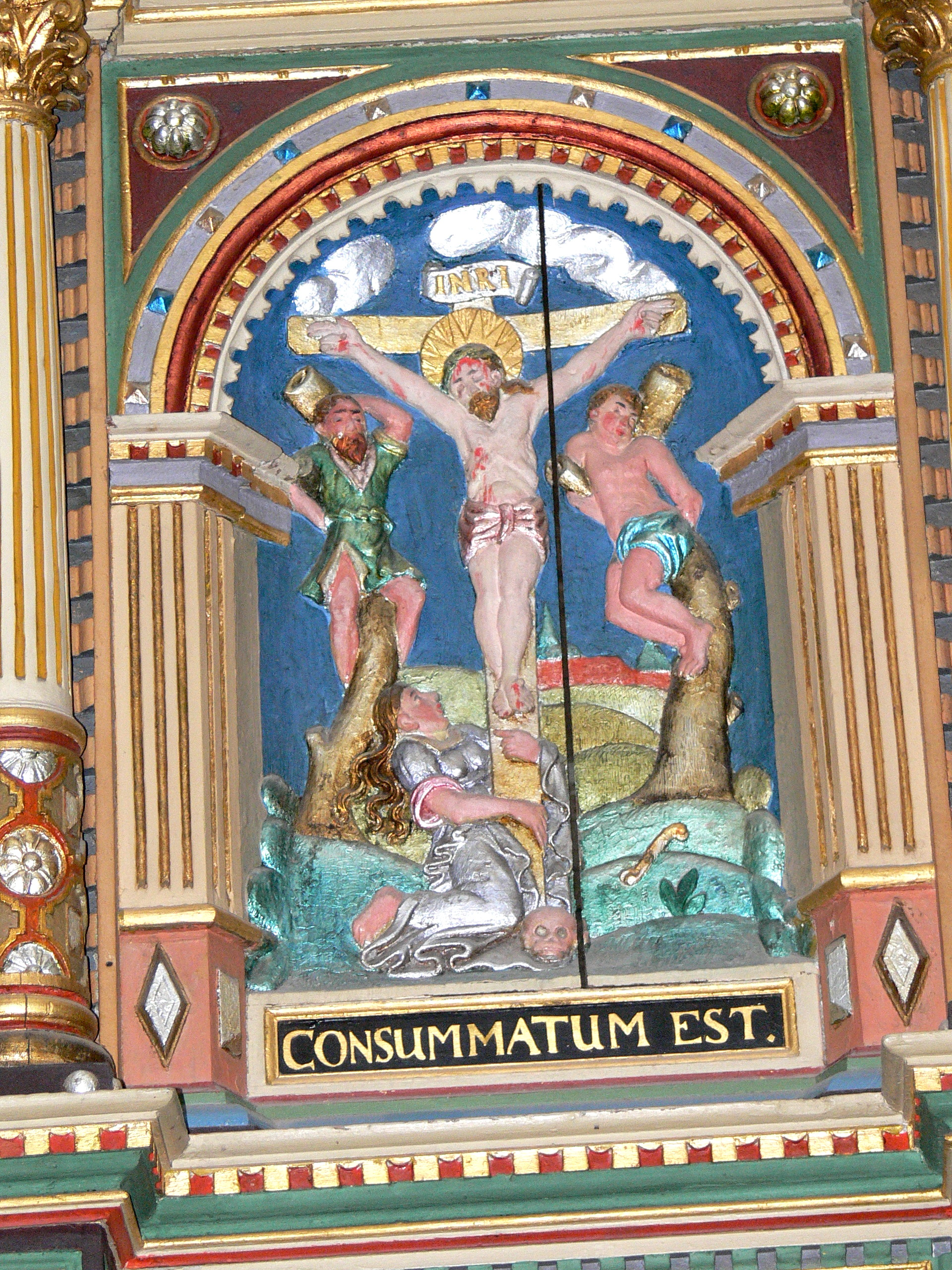 Ribe Cathedral. Pulpit ( 1597 ): Crucifixion with the latin inscription "Consummatum est" ( It´s done )